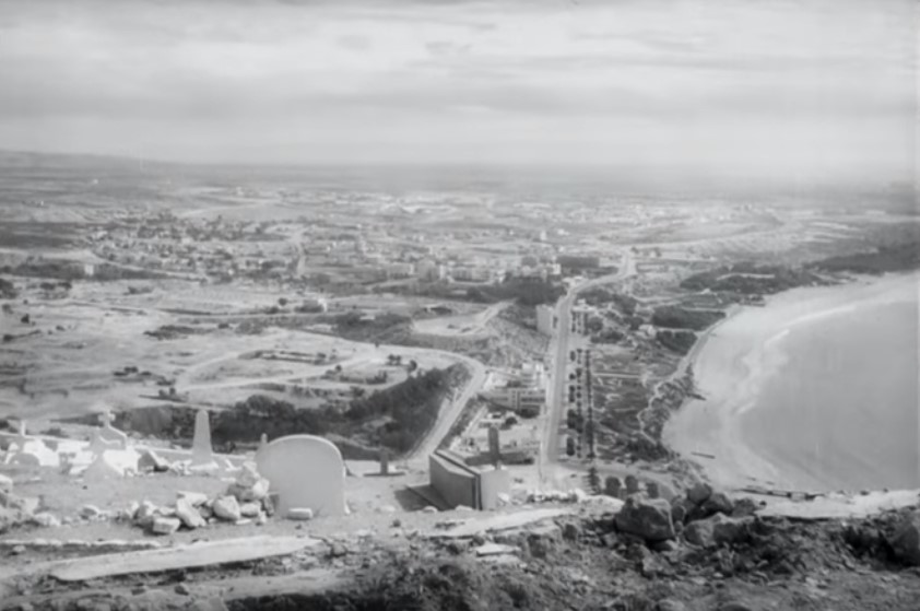 View of Agadir following the earthquake of 29 February 1960